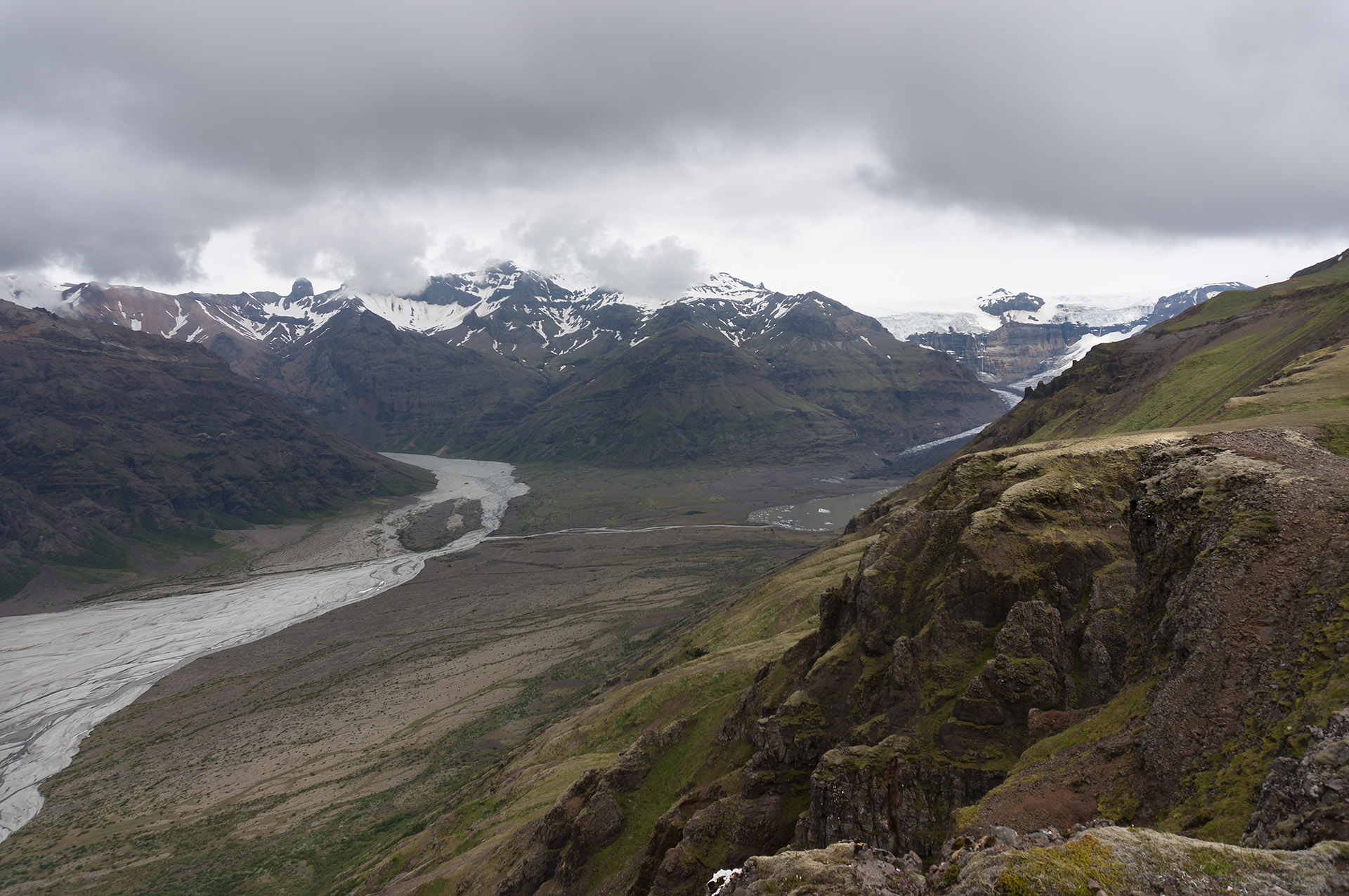 Eastern Region, Iceland